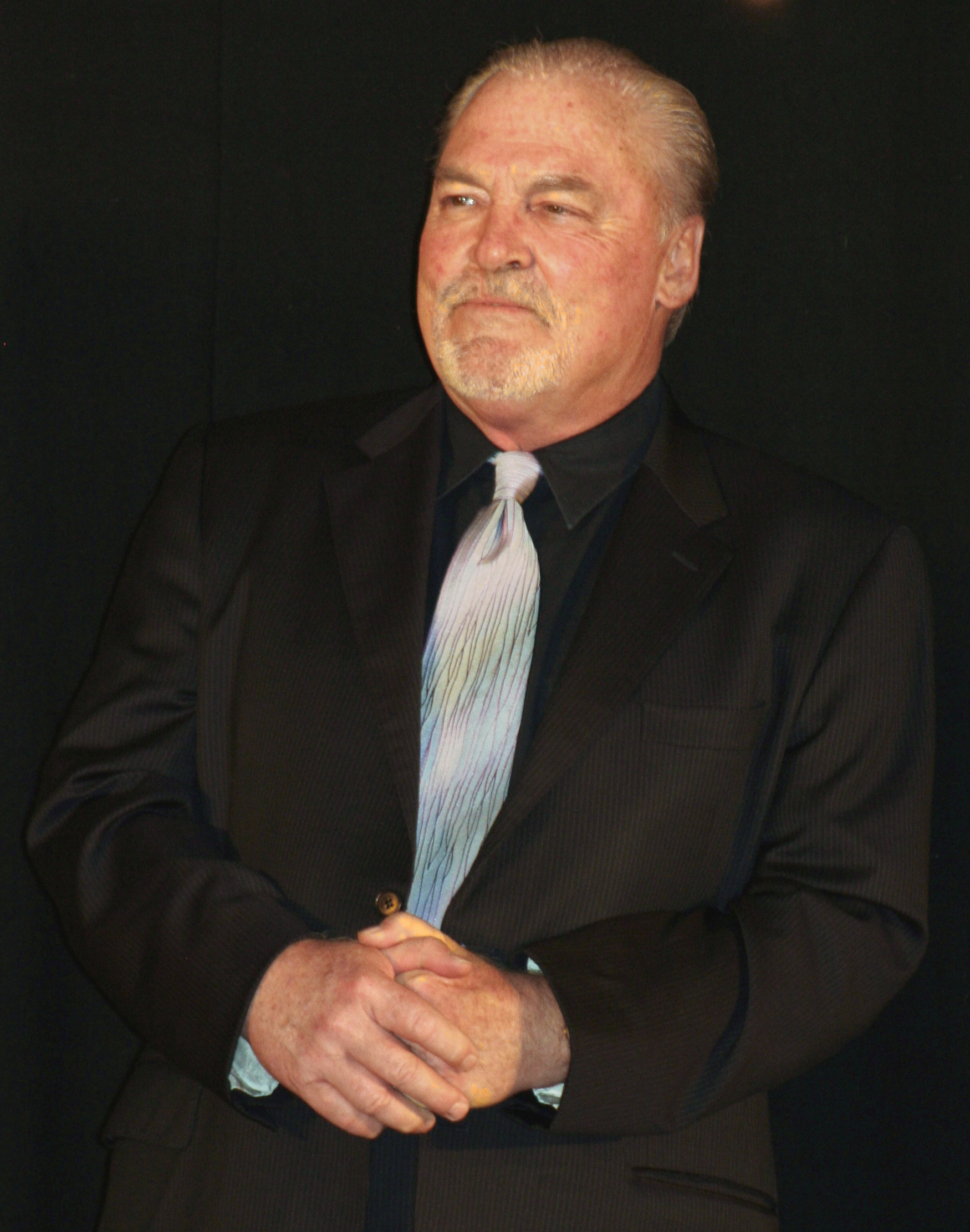 Stacy Keach at the Breakout Convention in May 2007.